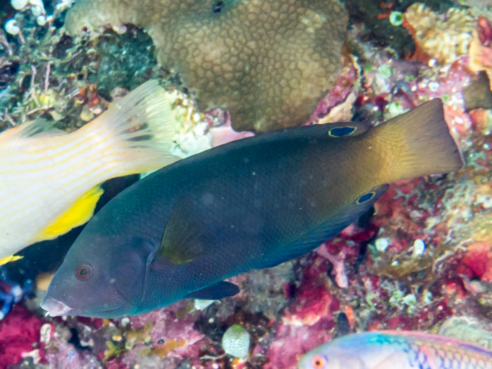 Morotai, Indonesia - Geographic wrasse (Anampses geographicus)